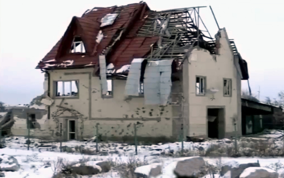 House destroyed during the War in Donbass, December, 2014.